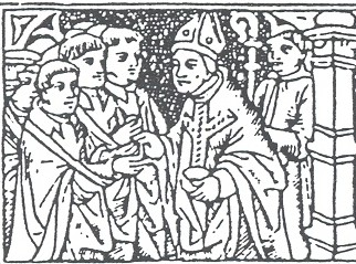 Priestly Ordination, 15th century engraving